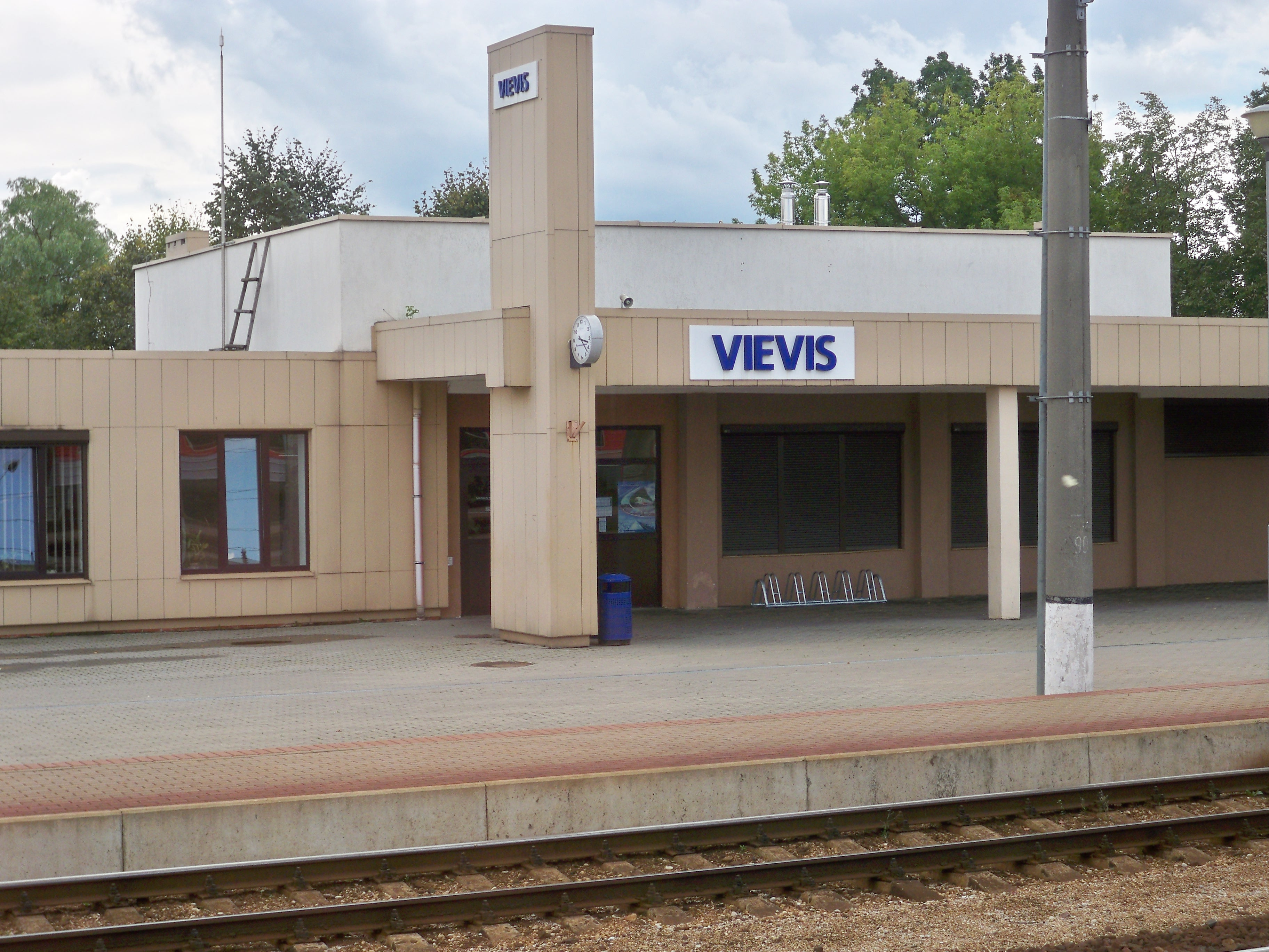 Vievis train station.